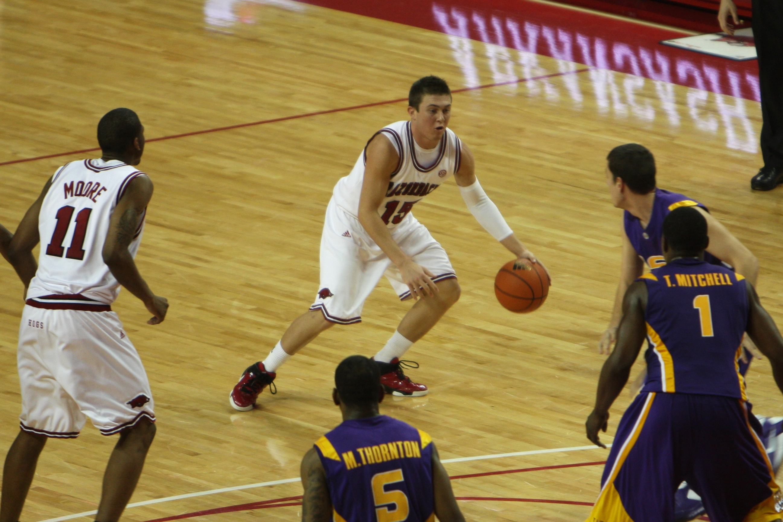 Arkansas basketball player Rotnei Clarke dribbling behind the 3-point line against LSU on February 18, 2009.